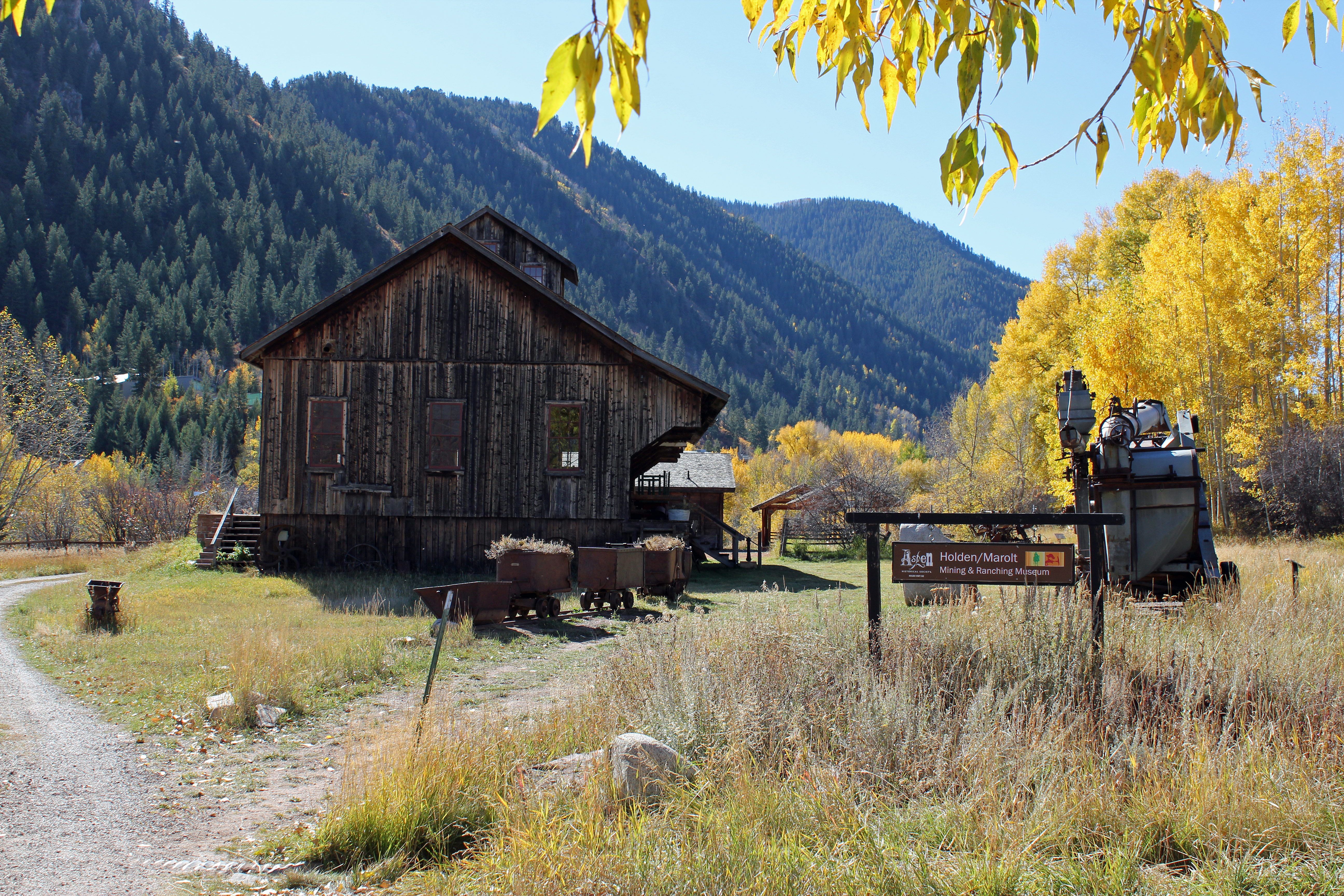 The Holden Mining and Smelting Company in Aspen, Colorado. The smelter used a process called lixiviation to extract silver from ores taken from area mines. The property, now a museum, is listed on the National Register of Historic Places.